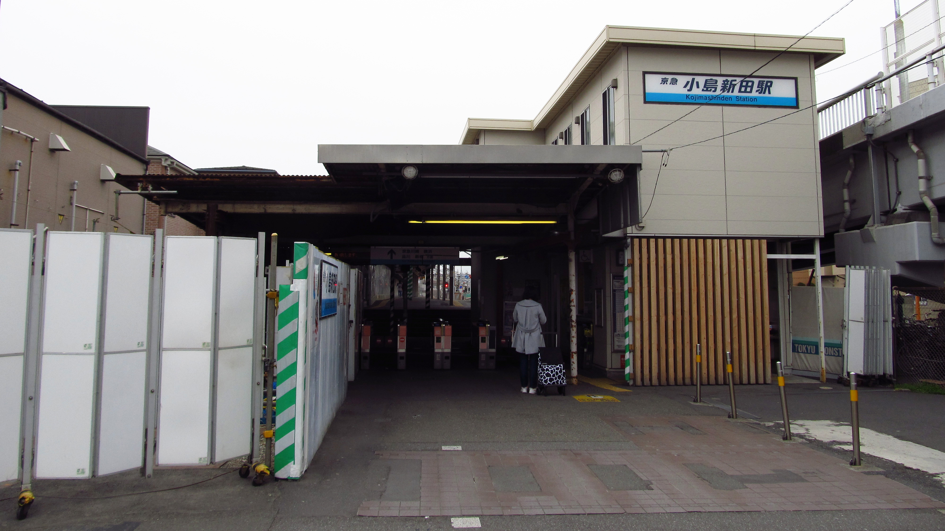 The building of Sangyōdōro Station on the Keikyū Daishi Line in Kawasaki ward, Kawasaki city, Japan